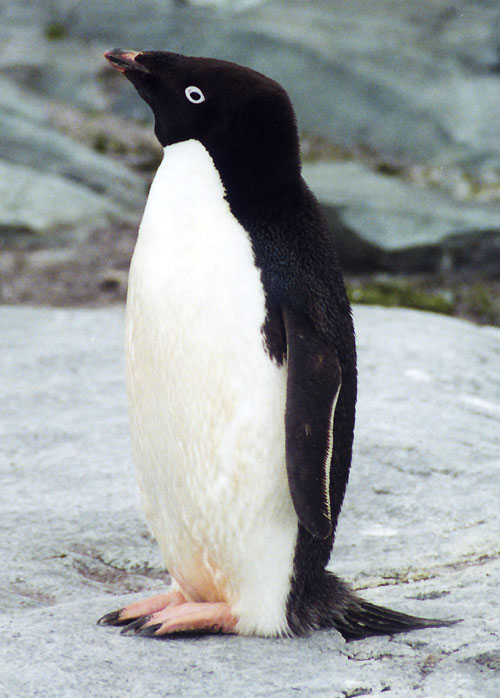 Adelie Penguin (Pygoscelis adeliae) on Petermann Island, Antarctica